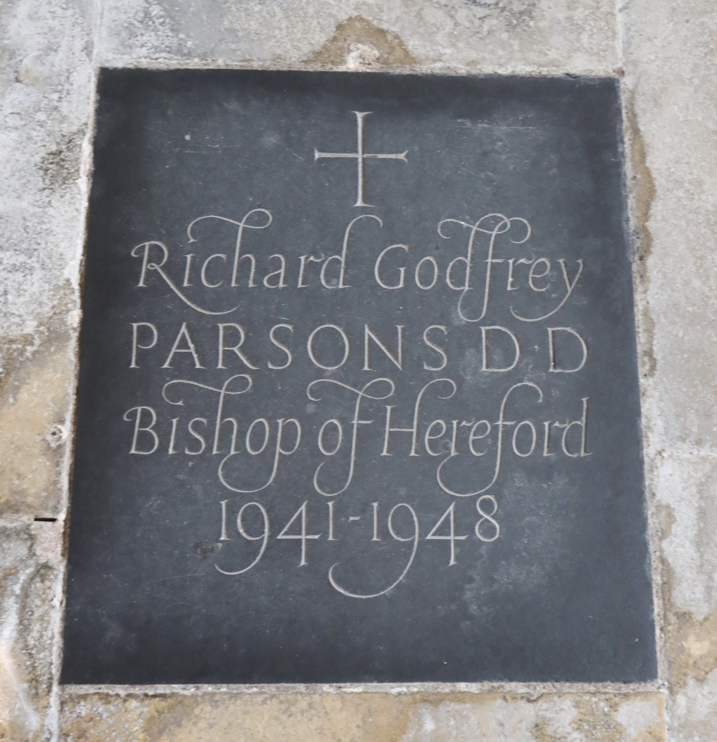 Richard Godfrey Parsons D.D. Bishop of Hereford 1941-1948